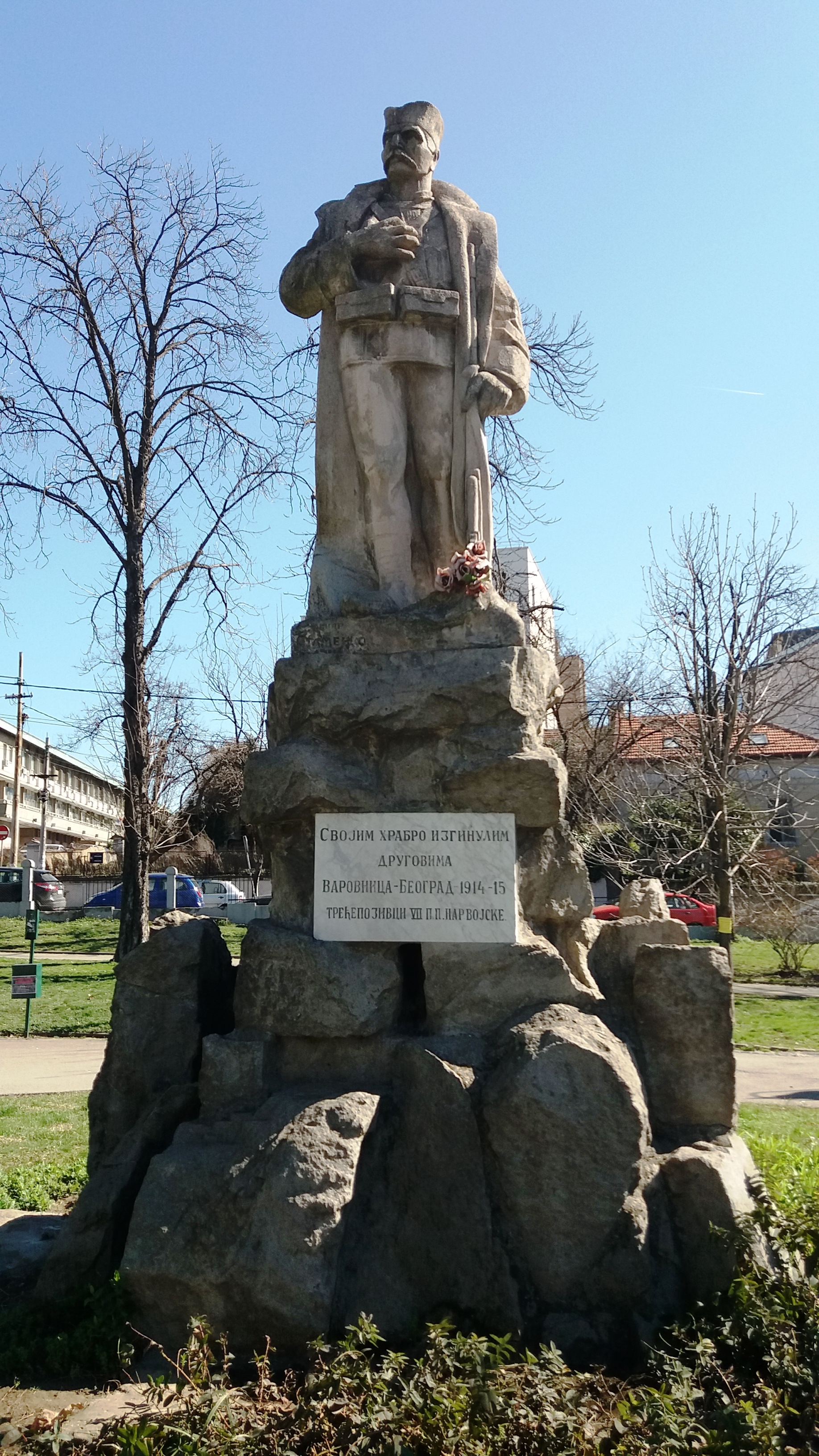 Monument to Third Callers in Belgrade, Park of Karadjordje, Vračar Municipality